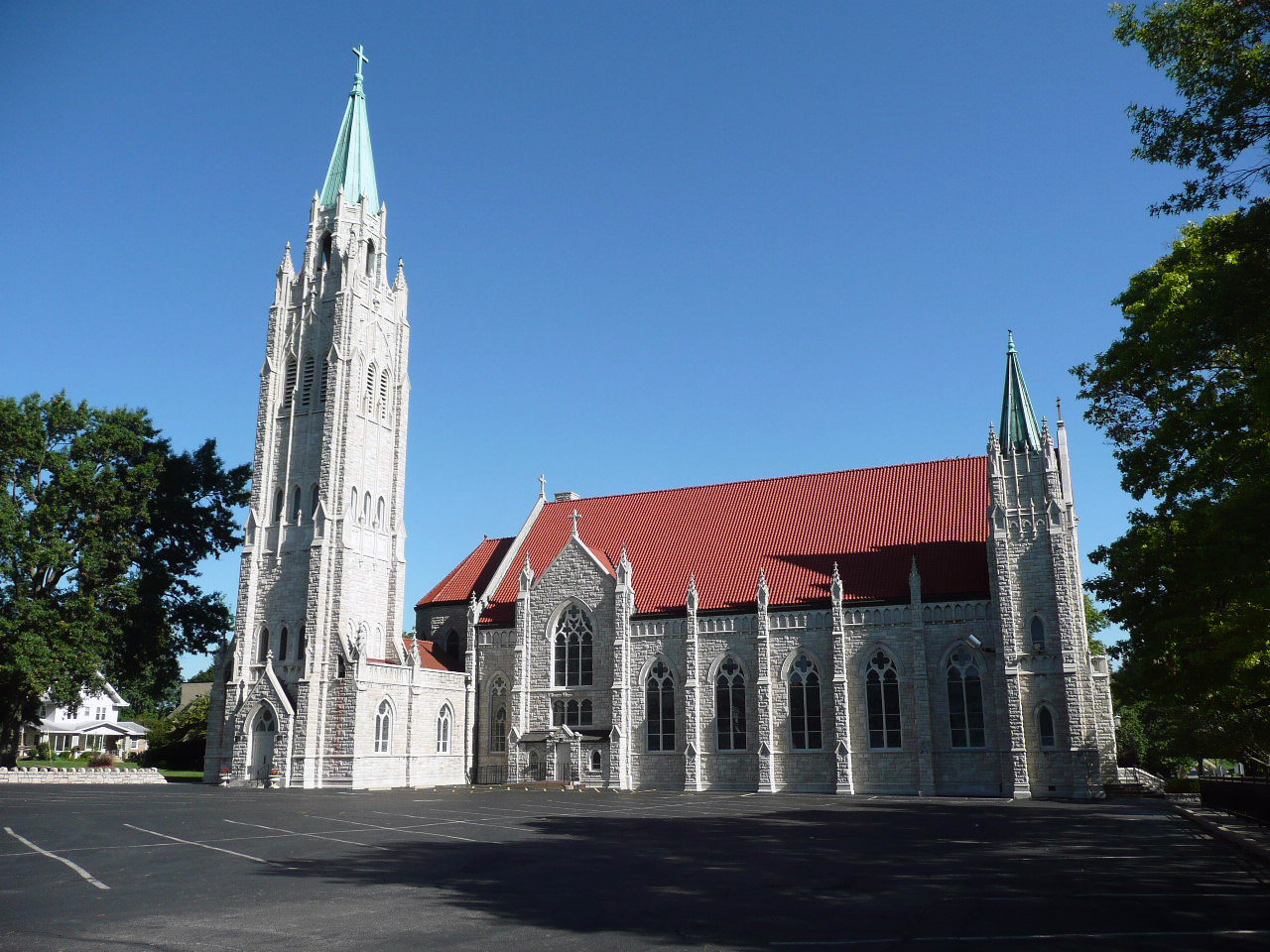 South side of the cathedral.